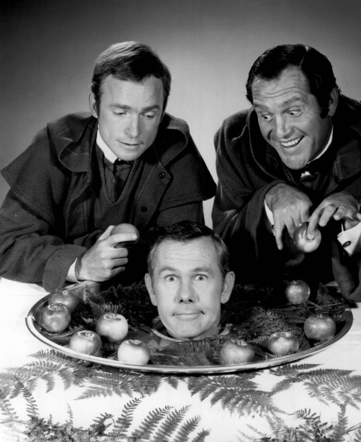 Publicity photo for the Friars' Club of California roast of Johnny Carson. Pictured standing are Dick Cavett (left) and Alan King. The roast was televised.